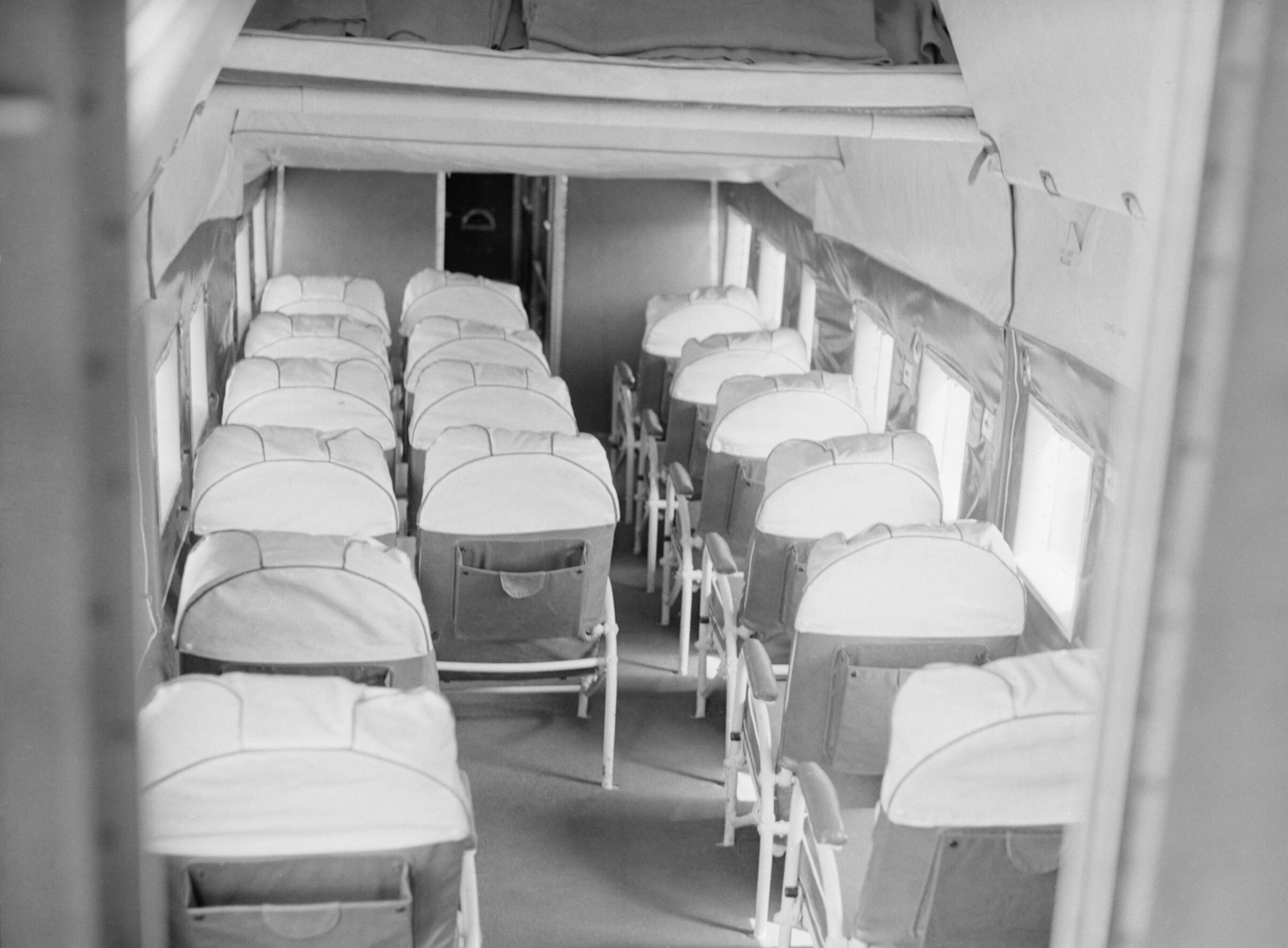 American Aircraft in Royal Air Force Service 1939-1945- Consolidated Liberator. The main cabin interior of LB-30 Liberator, AL504 "Commando", the personal transport aircraft of the Prime Minister, photographed at Northolt, Middlesex, on returning to the United Kingdom, following extensive modification and a complete overhaul by the Consolidated Aircraft Company at San Diego, California. The fuselage was extended by seven feet and the interior was furnished to accommodate 20 passengers with bunks and a stewards galley. This view shows the main cabin with the bunks stowed.